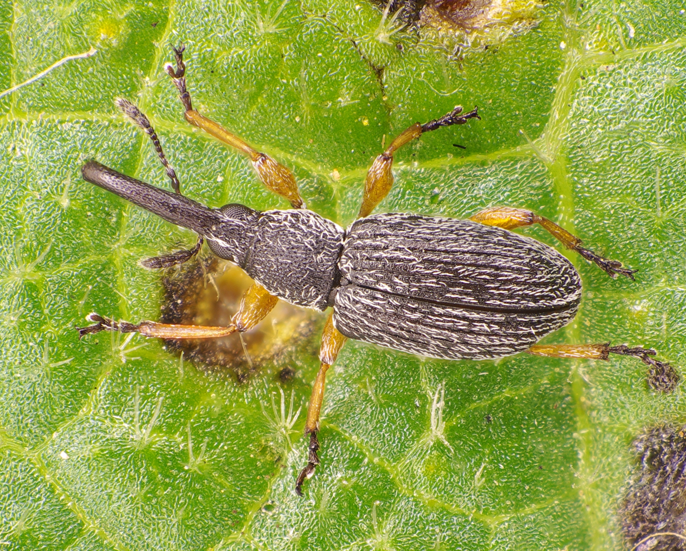 Rhopalapion longirostre from Spaichingen in Southern Germany, Baden-Württemberg, caught at 2012-10-21 at Alcea rosea